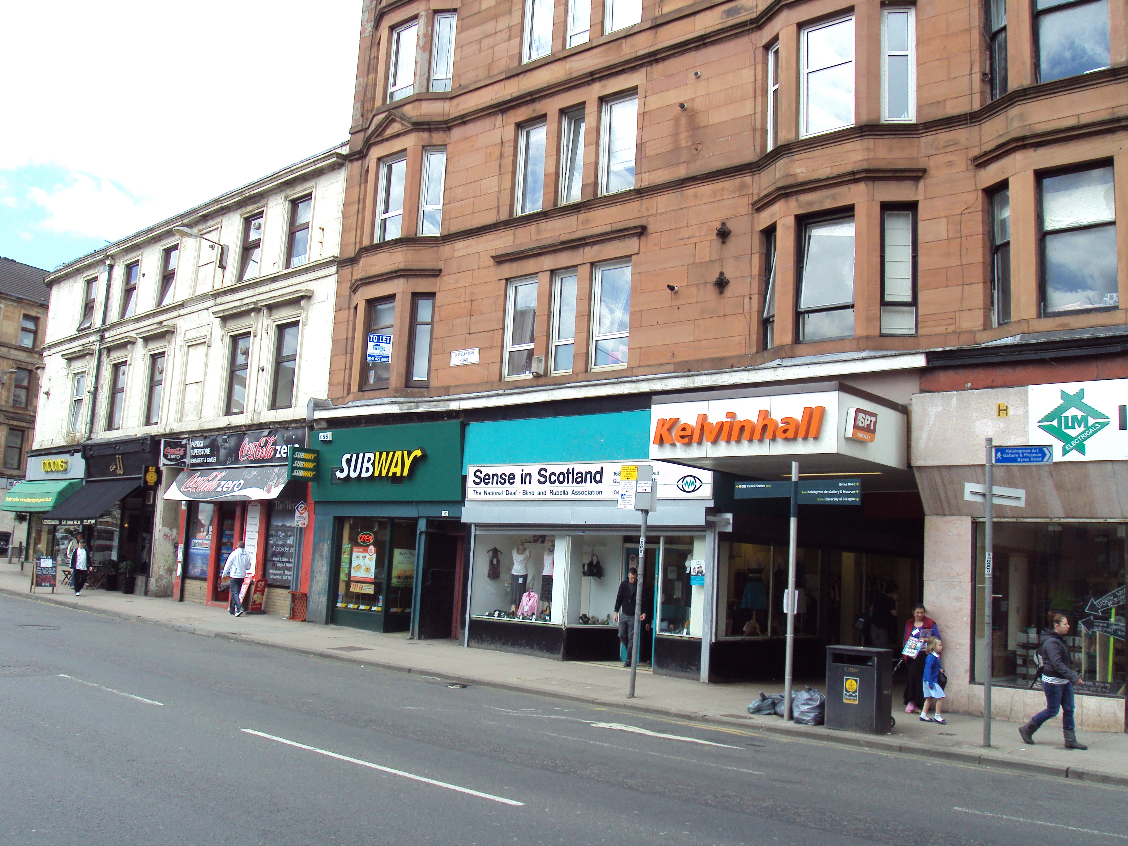 Kelvinhall subway station entrance and nearby shops on Dumbarton Road, Glasgow, Scotland.